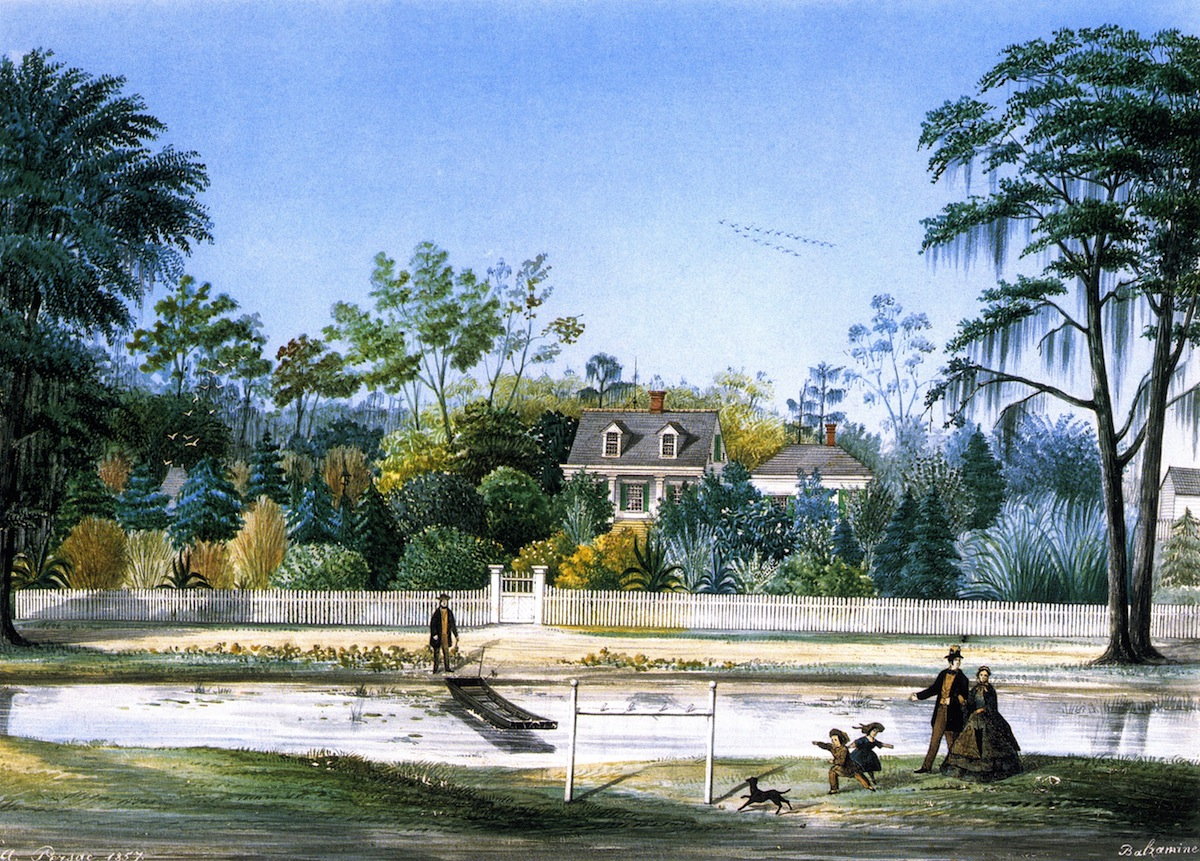 Balzamine Plantation on the banks of Bayou Terrebonne, Terrebonne Parish, Louisiana